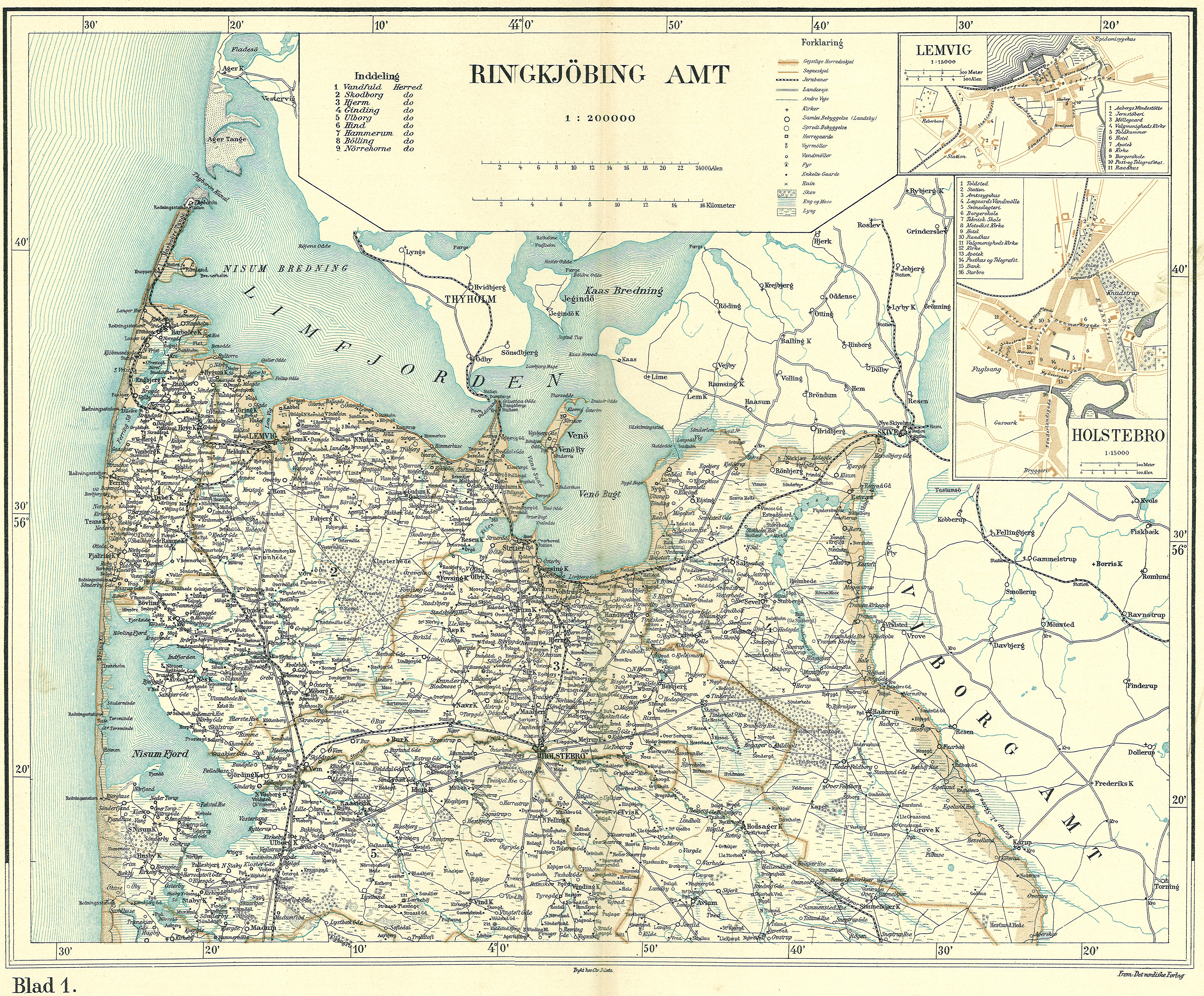 Map of the northern part of Ringkøbing County in Denmark